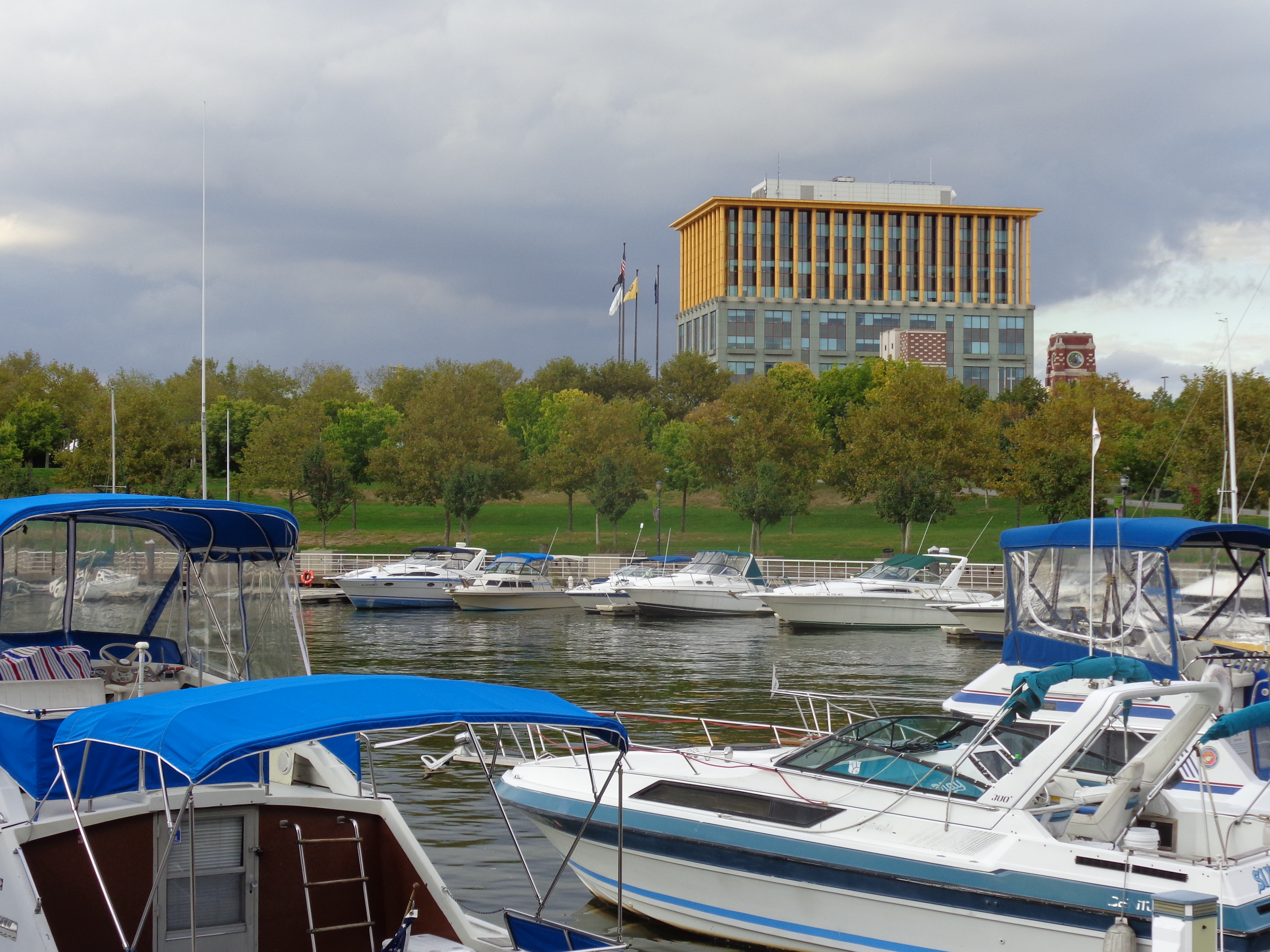 Wiggins Park Marina with One Port Center on the Camden Waterfront in Camden NJ by Michael Graves (1996) headquarters Delaware River Port Authority